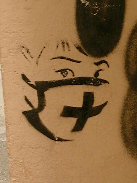 Art seen on streets of Barcelona